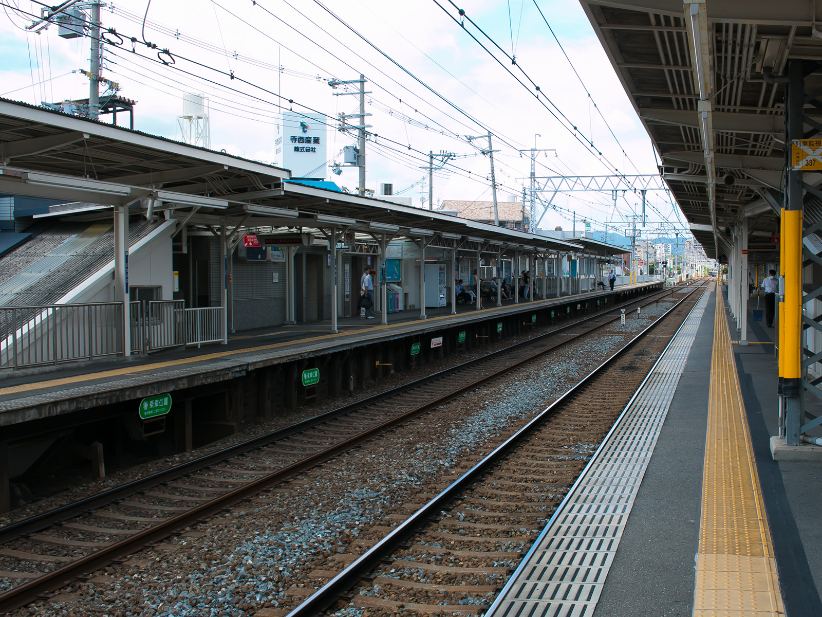 The platforms at Sōjiji Station in Osaka Prefecture, Japan